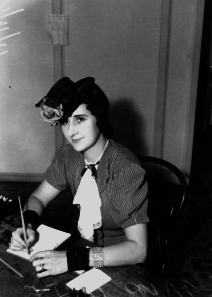 Mrs Prunella Marshall, Miss A.I.F., 1946. Mrs Marshall sits writing at a desk. She wears a flower-adorned hat and a lace ruffle at her collar.